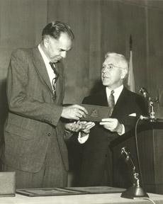 This is a photo of Glenn T. Seaborg (L) receiving the Enrico Fermi Award from John McCone (R), Chairman of the United States Atomic Energy Commission on December 2, 1959, in Washington, D.C. Seaborg became McCone's successor as AEC chair in 1961.